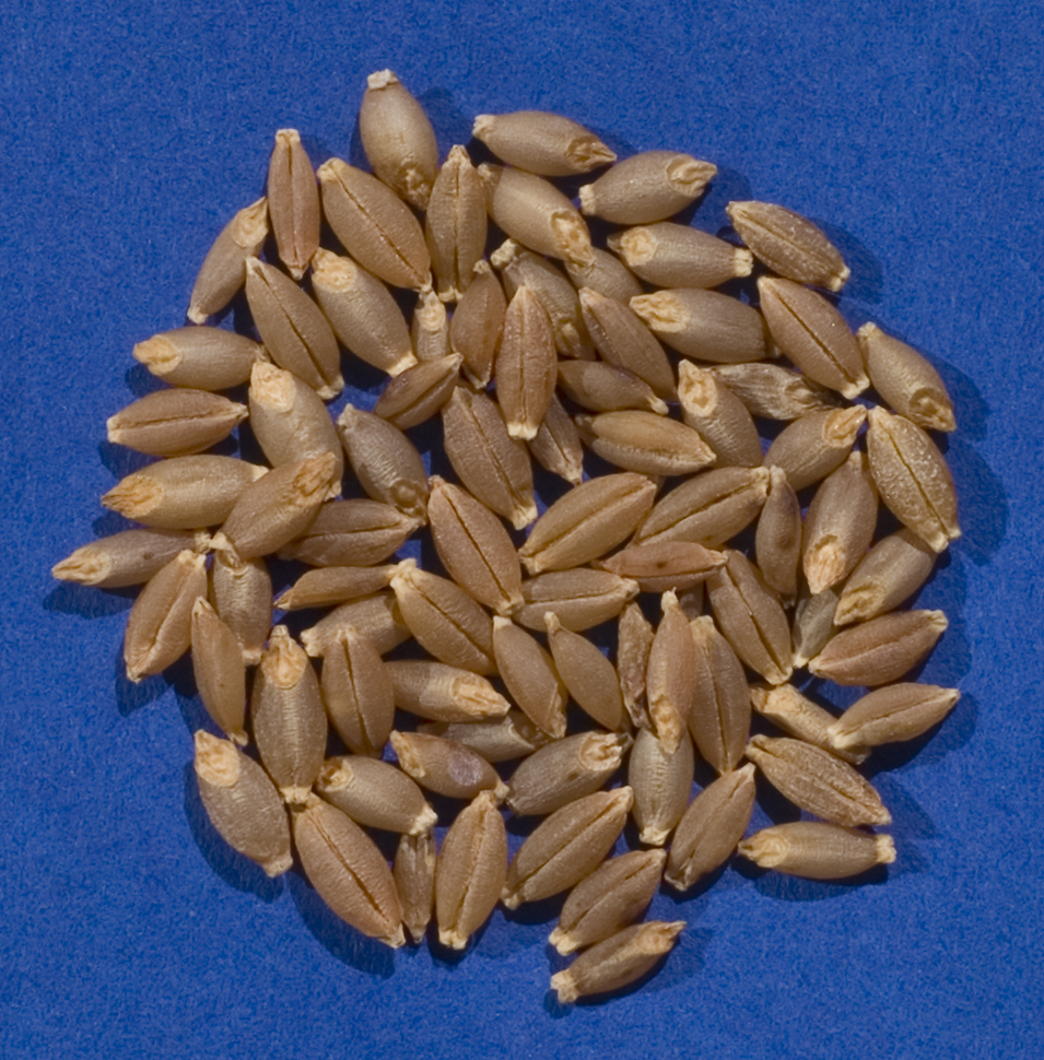 Naked barley kernels swiss landrace "Walser Gerste"